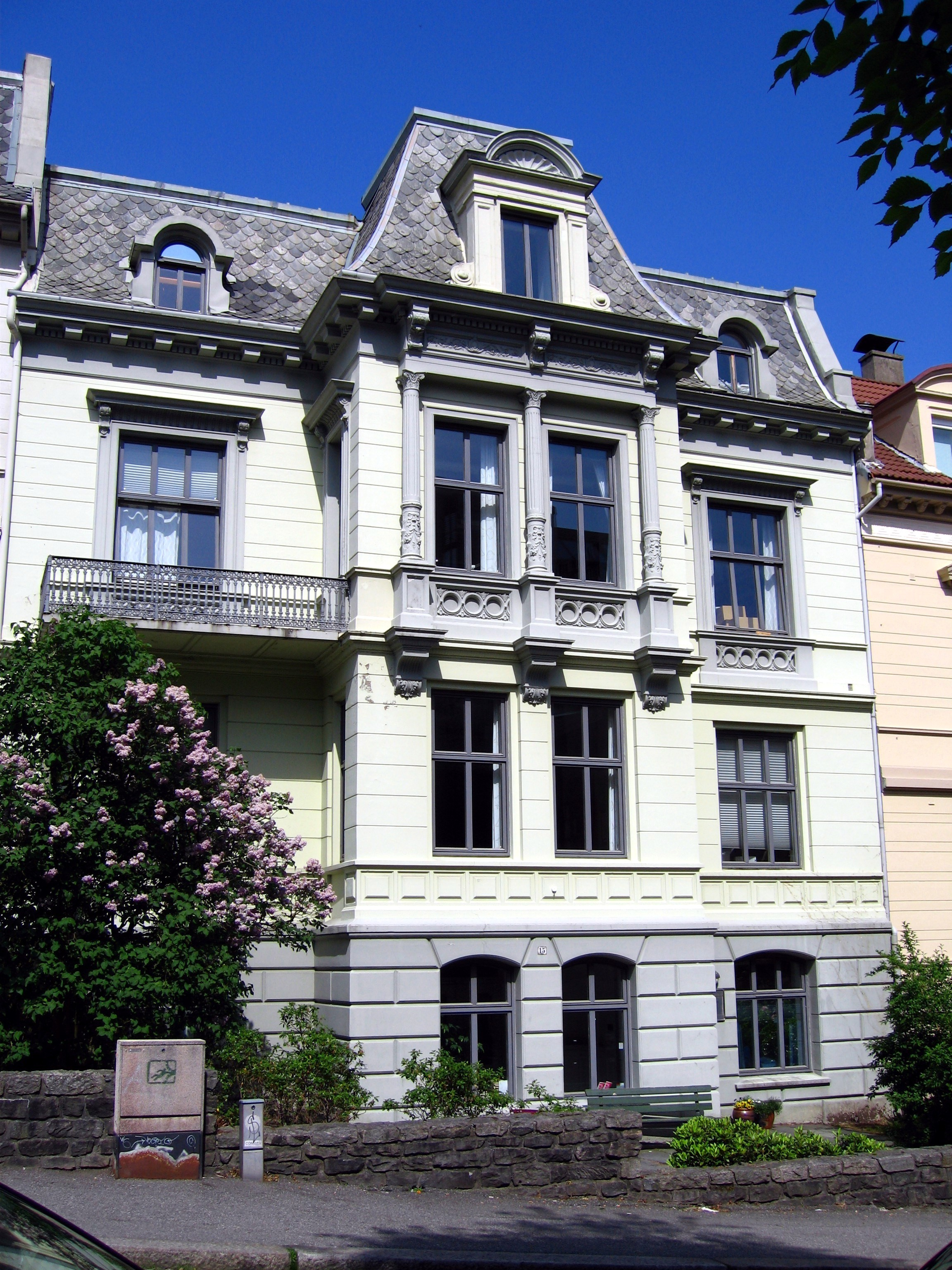 Department of comparative politics, University of Bergen. Christies gt. 15.